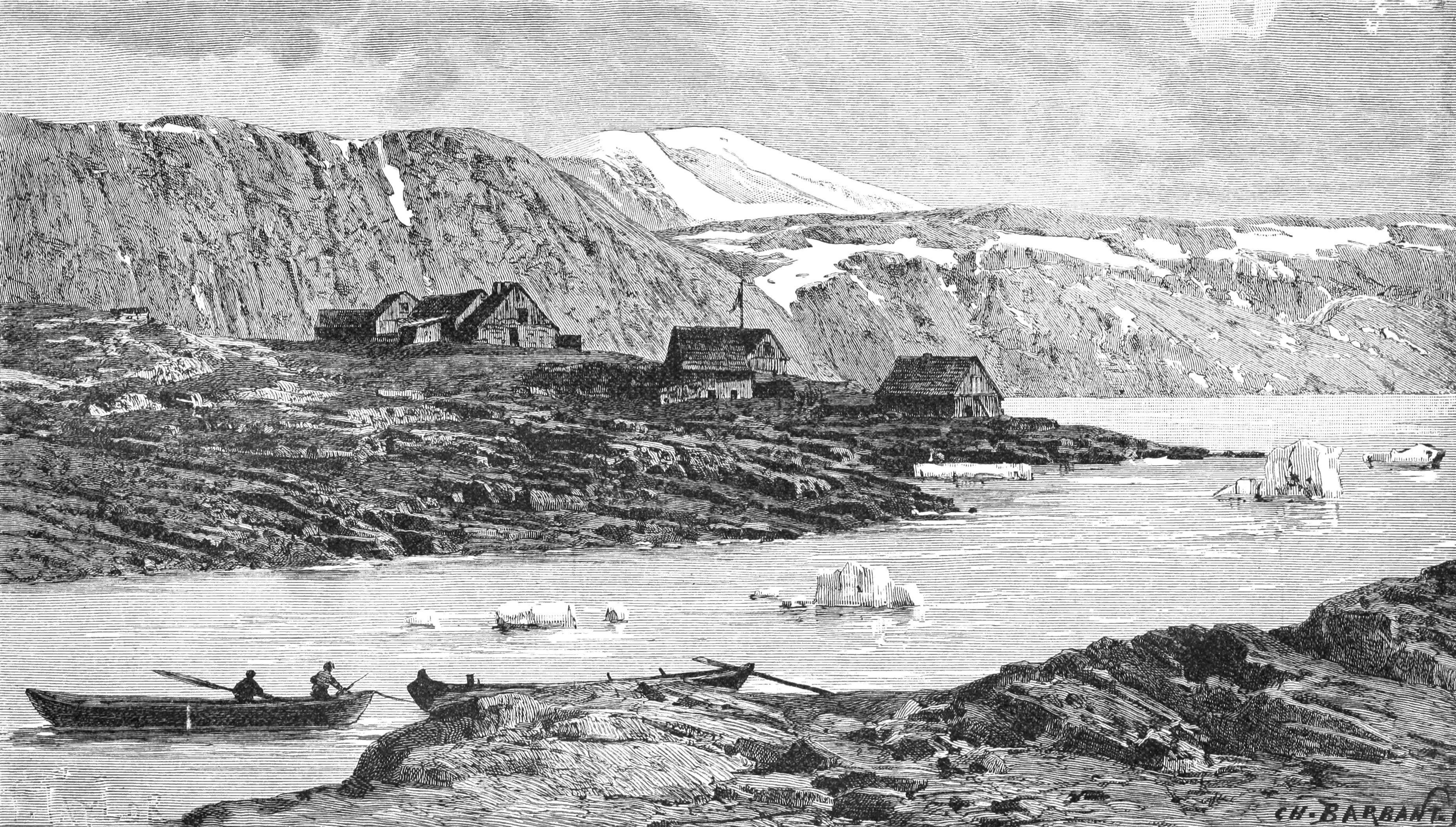 View of Upernavik